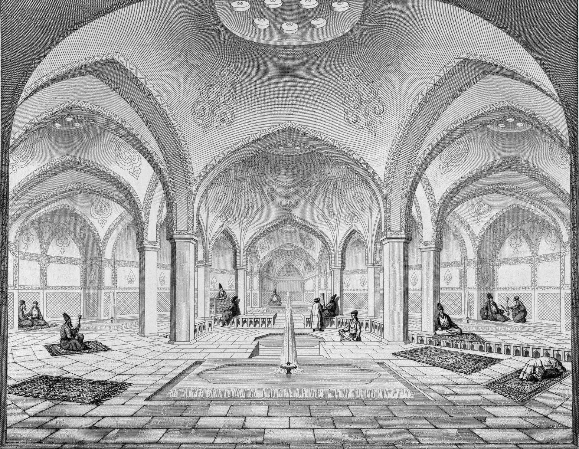 Bathhouse Kashan